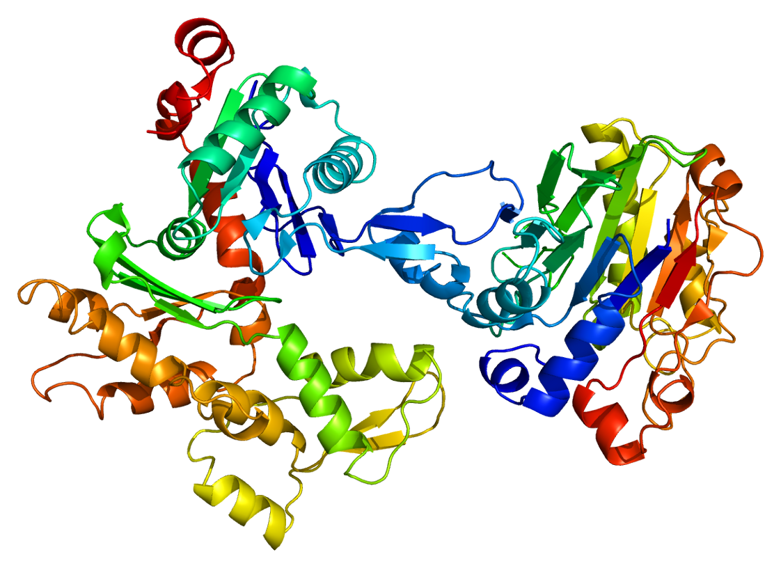 Structure of the complex between actin and DNASE I Based on PyMOL rendering of PDB 1atn.